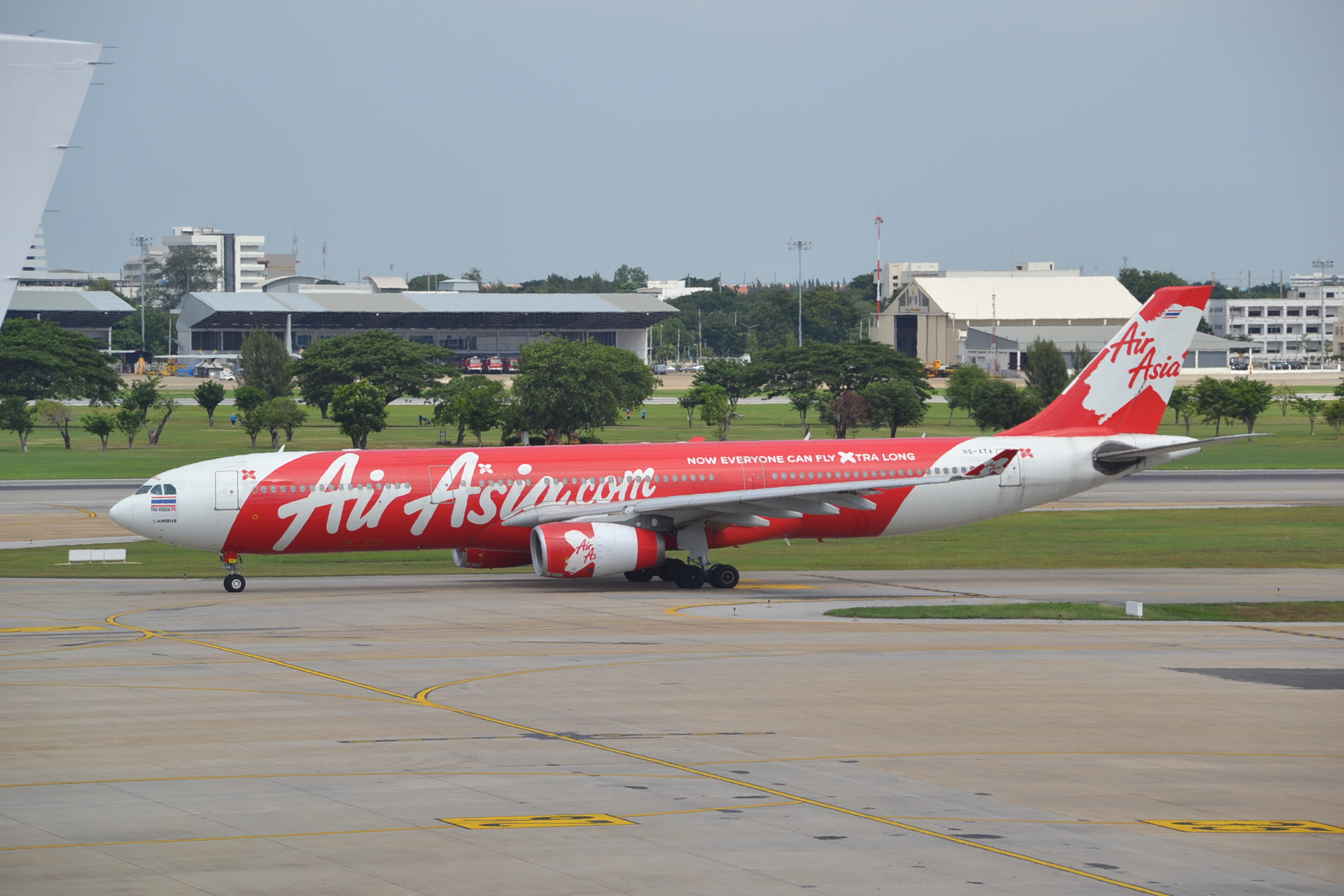 Airbus A330 of Thai AirAsia X at Bangkok Don Mueang-DMK,Thailand,19/06/15.